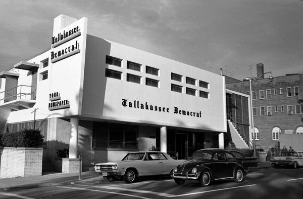 Tallahassee Democrat newspaper building at 100 E. Call Street.